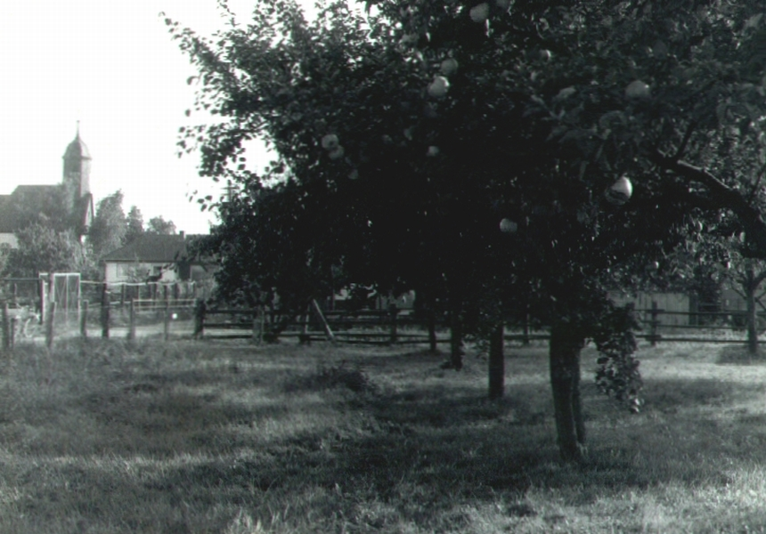 The protestant church of Erzhausen, Germany and a pear orchard in front (the apple name of the file may probably be wrong), taken sometime in the 1970s-1980s.